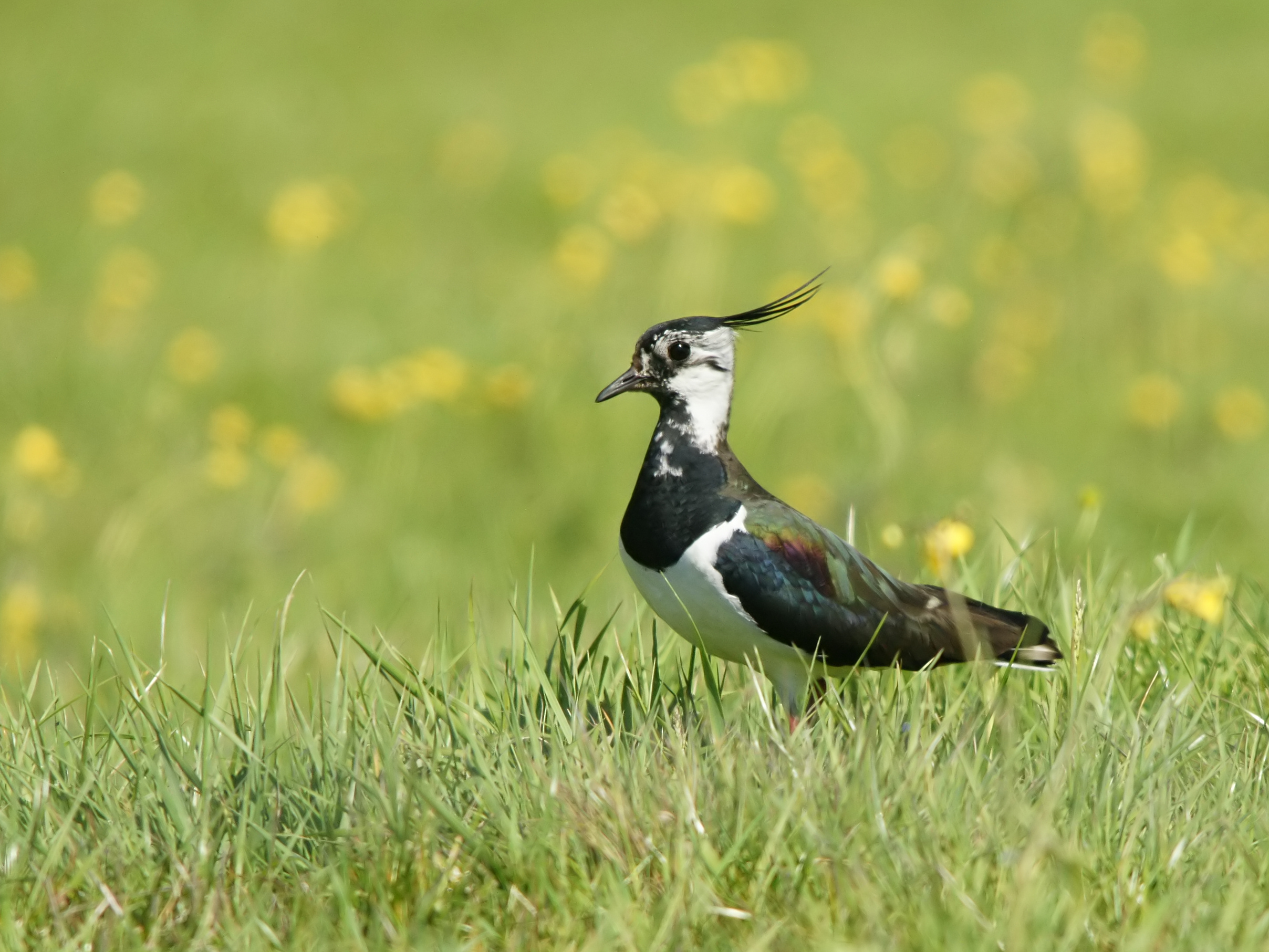 Lapwing at Uitkerkse Polders, Belgium